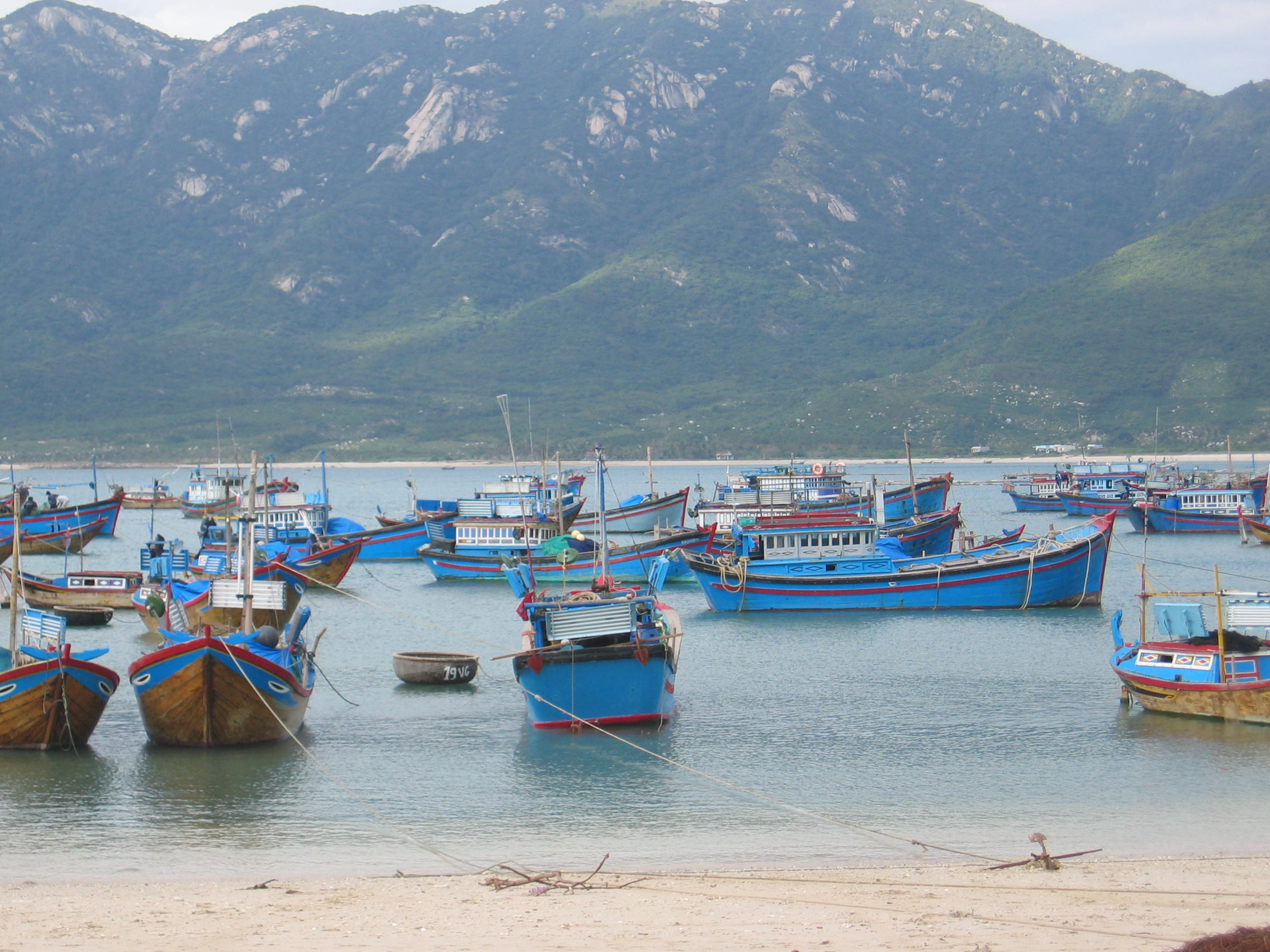 Fishing boats off Nha Trang, Vietnam. Blue is good luck and they all have the "eye" sign on them for luck